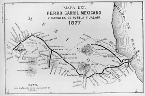 Mexican Railroad Map (1877)